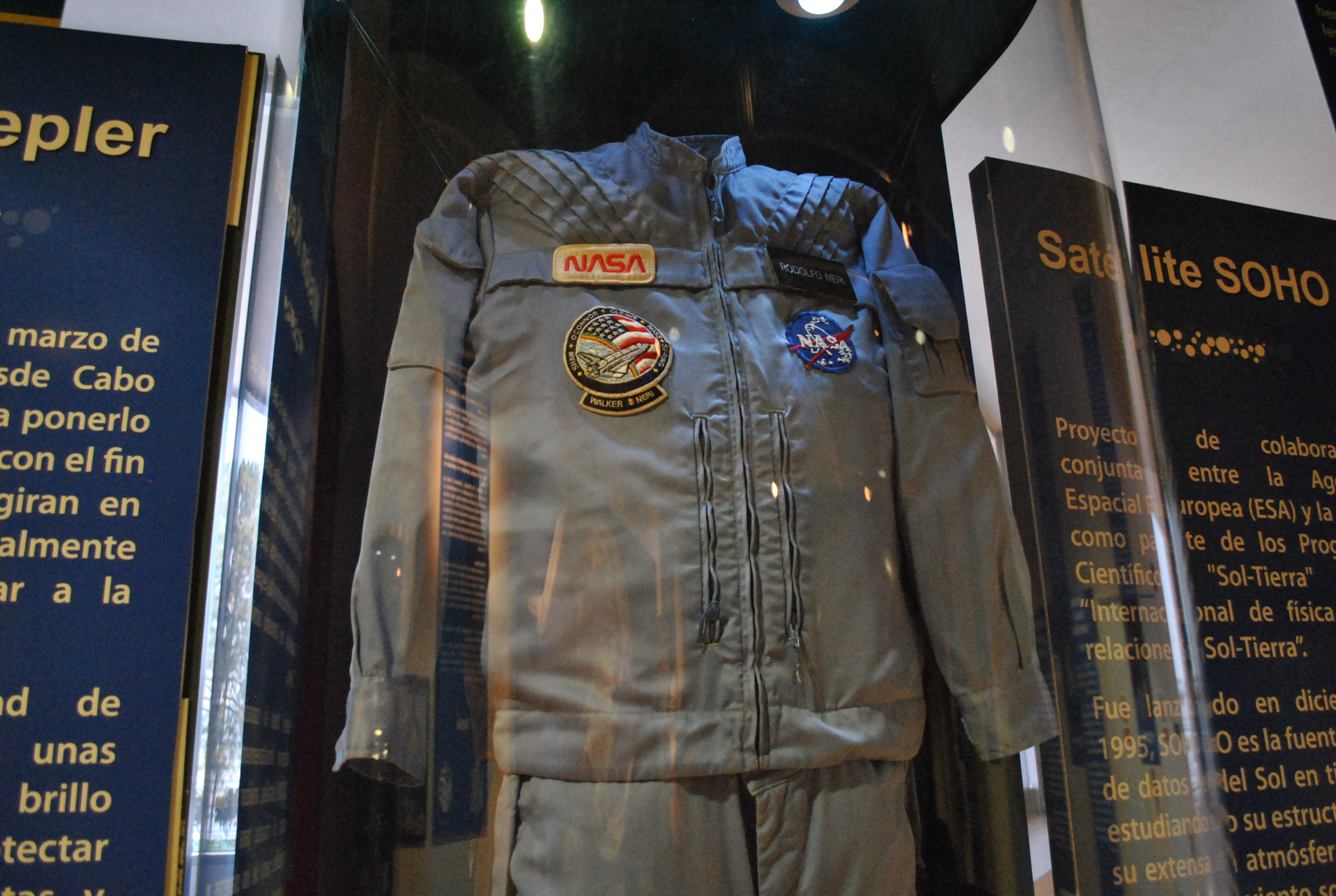 Space suit worn by Mexican astronaut Rodolfo Neri Vela, nestled in the Museo Tecnológico (Tech Museum) of the CFE.